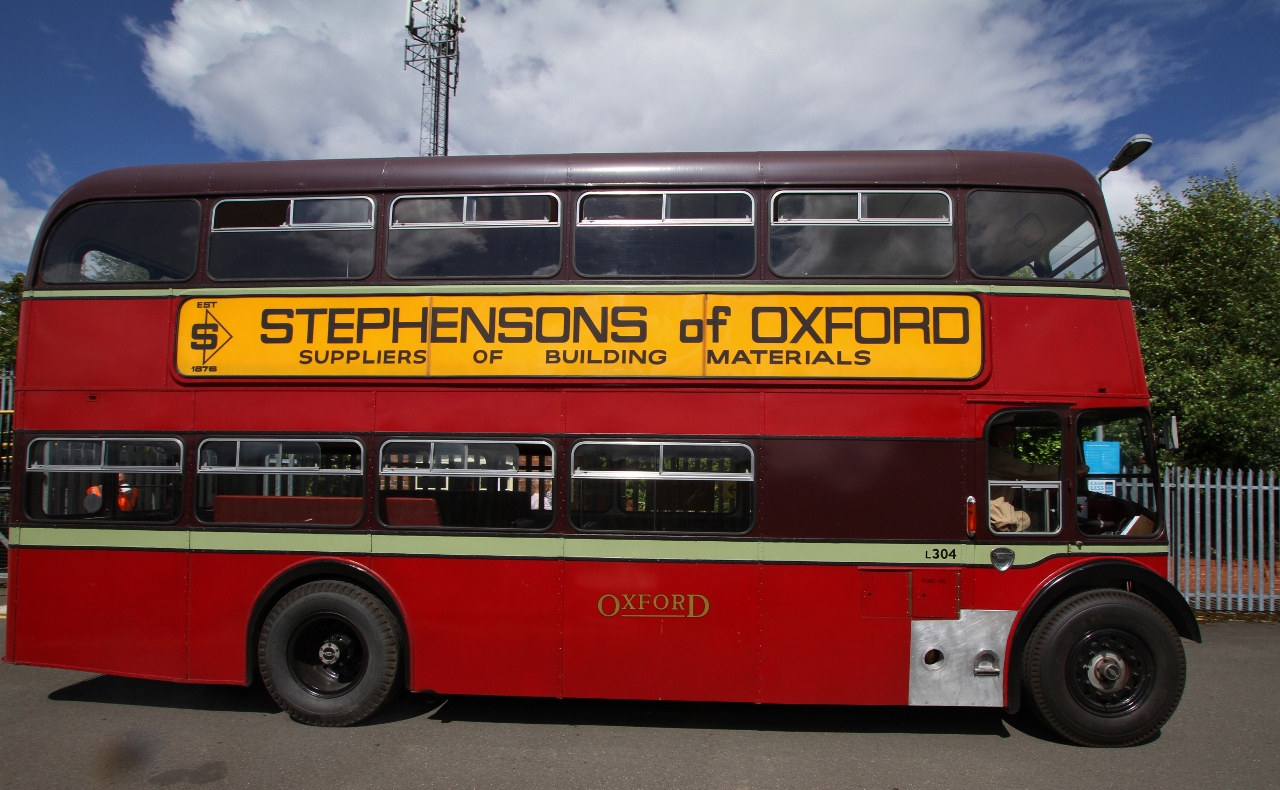 1961 Dennis Loline II bus with East Lancashire Coachworks body, registration mark 304 KFC, at Oxford Bus Museum in Long Hanborough, Oxfordshire. The bus was operated by City of Oxford Motor Services, fleet number 304.